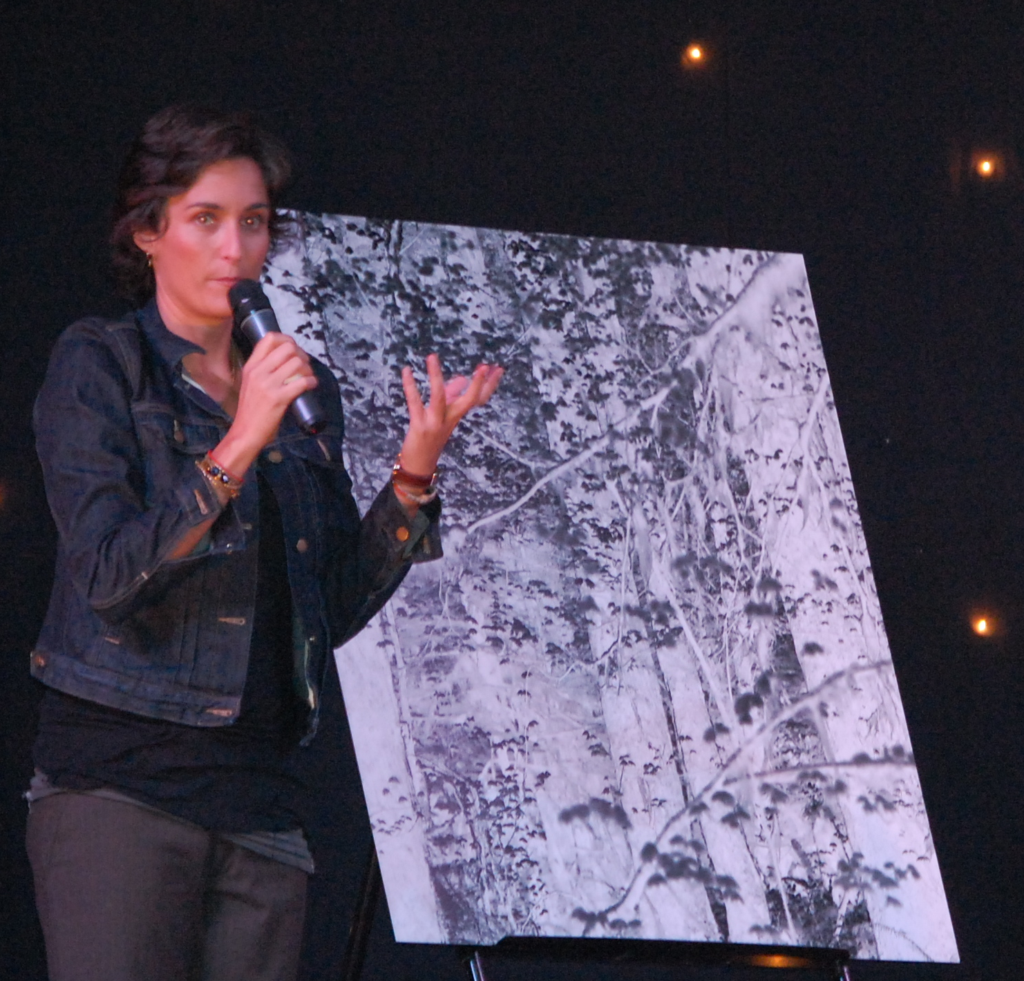 American photographer and actress Alexandra Hedison at L6, fan convention for The L Word television program, in Norbreck Castle Hotel, Blackpool, UK.